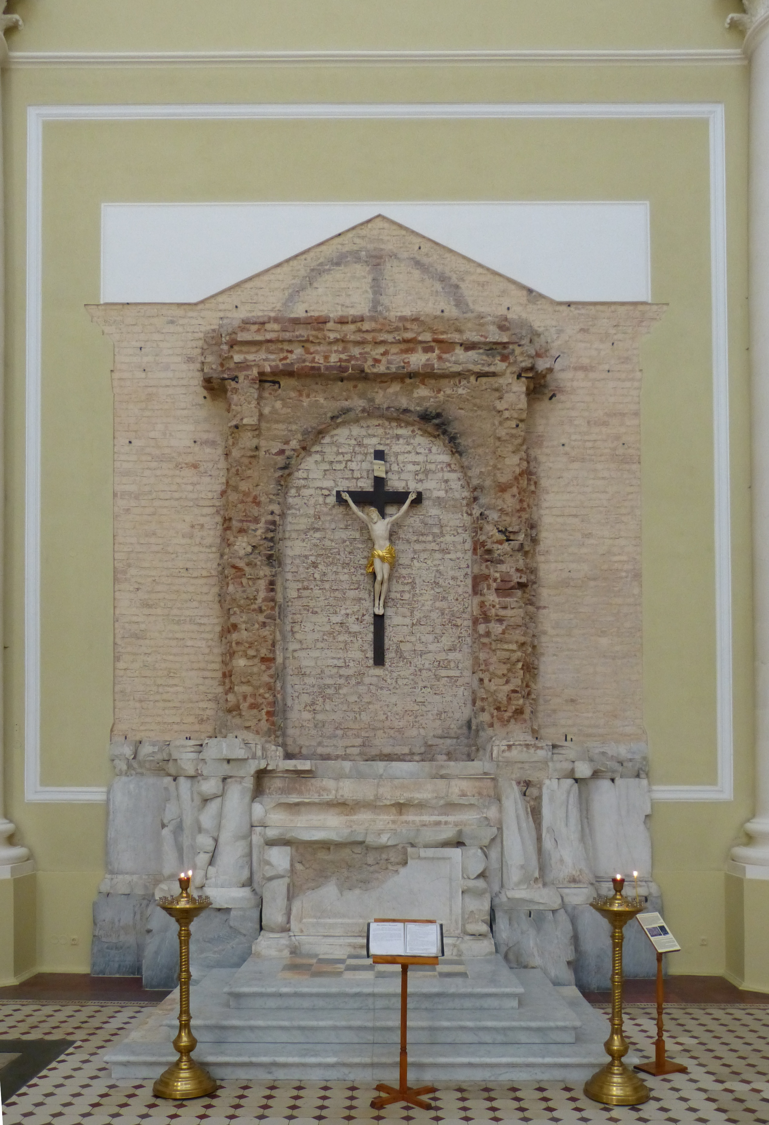 Catholic Church of St. Catherina, Sanct Petersburg, Russia